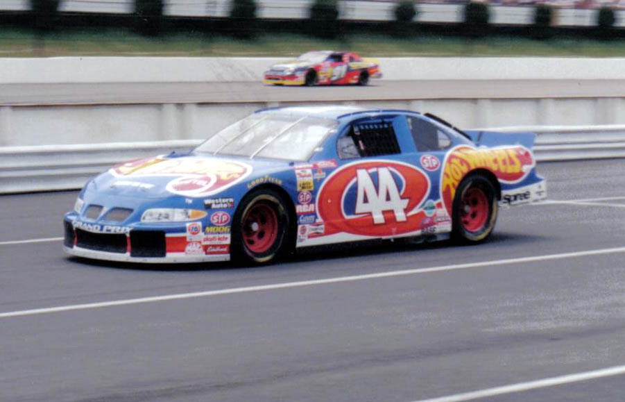 NASCAR driver Kyle Petty at Pocono in 1997.